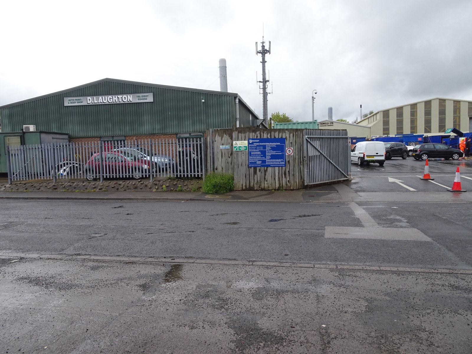 Tadcaster railway station (site), Yorkshire